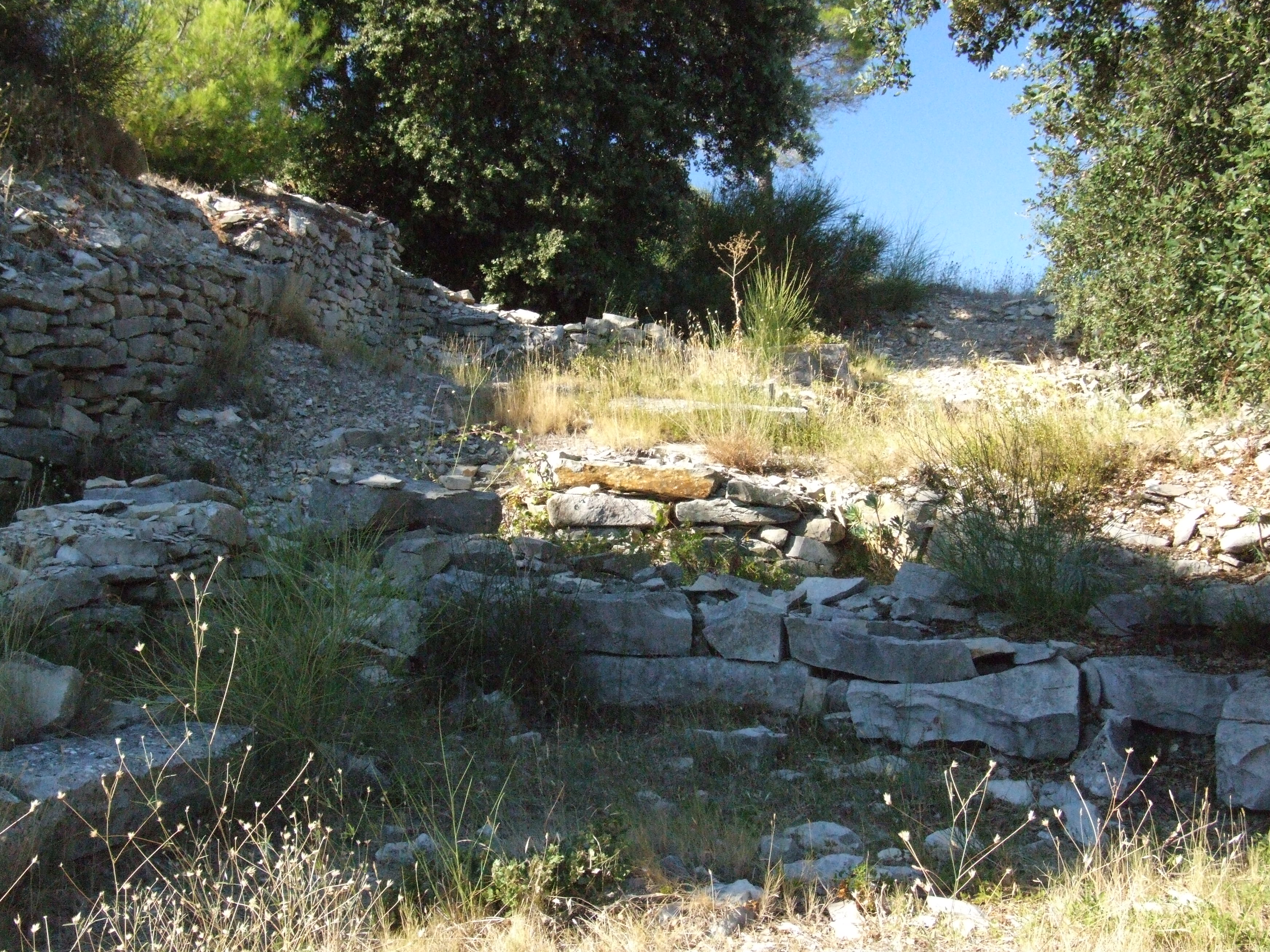 The village of Nages is dominated by the two Gaulish oppidums of Roque de Viou, and of Nages on the Roque de Viou hill to the north. The Oppidum de Roque de Viou dates from 700 bce and is the older of the two. Fanum and residence by 5m high wall originally.